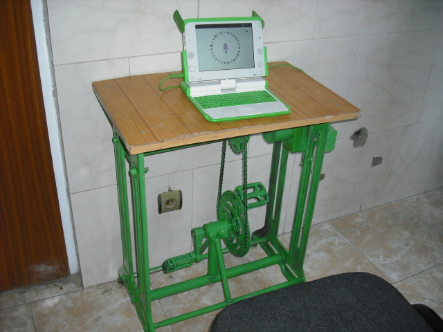 The following is the author's description of the photograph quoted directly from the photograph's Flickr page." "